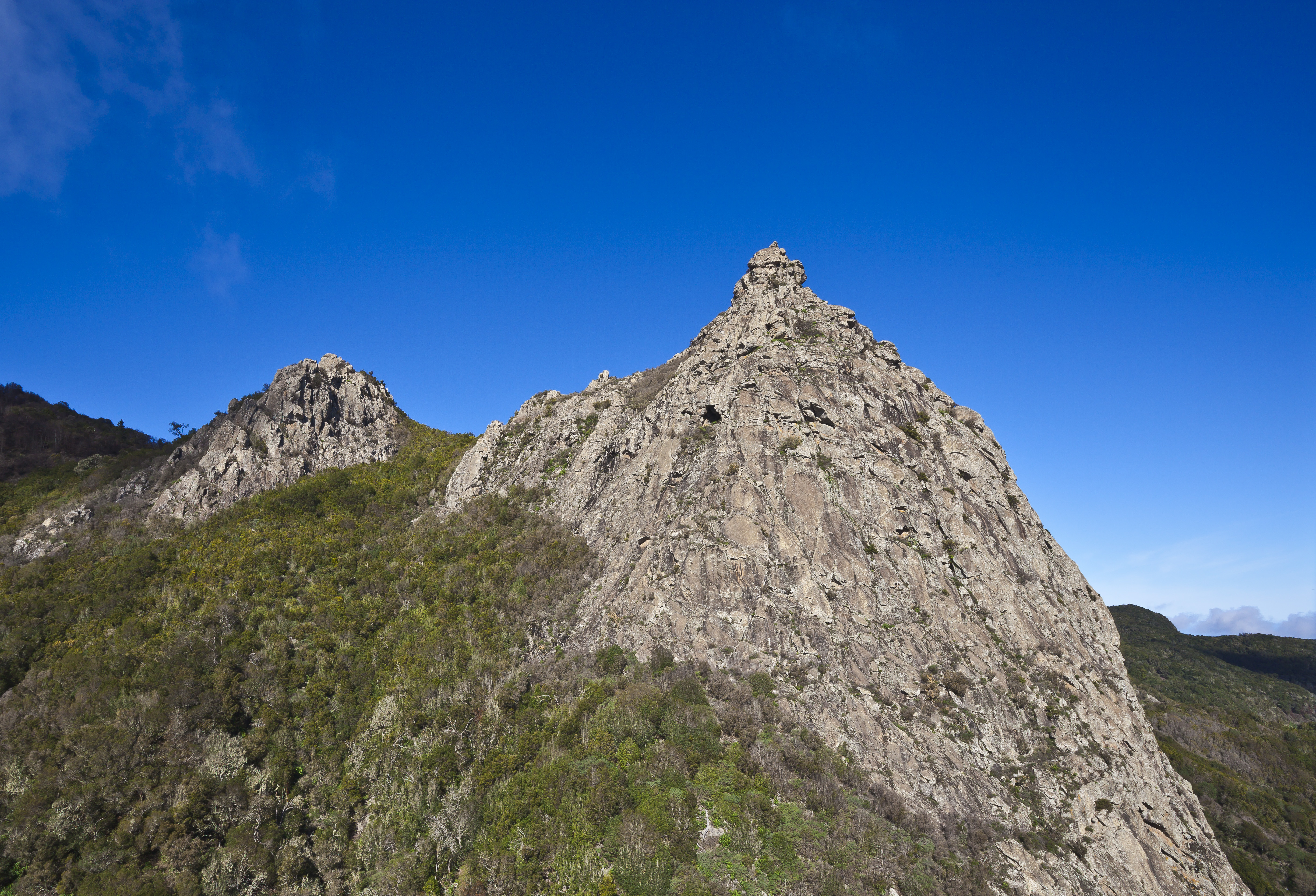 Garajonay National Park, La Gomera, Spain